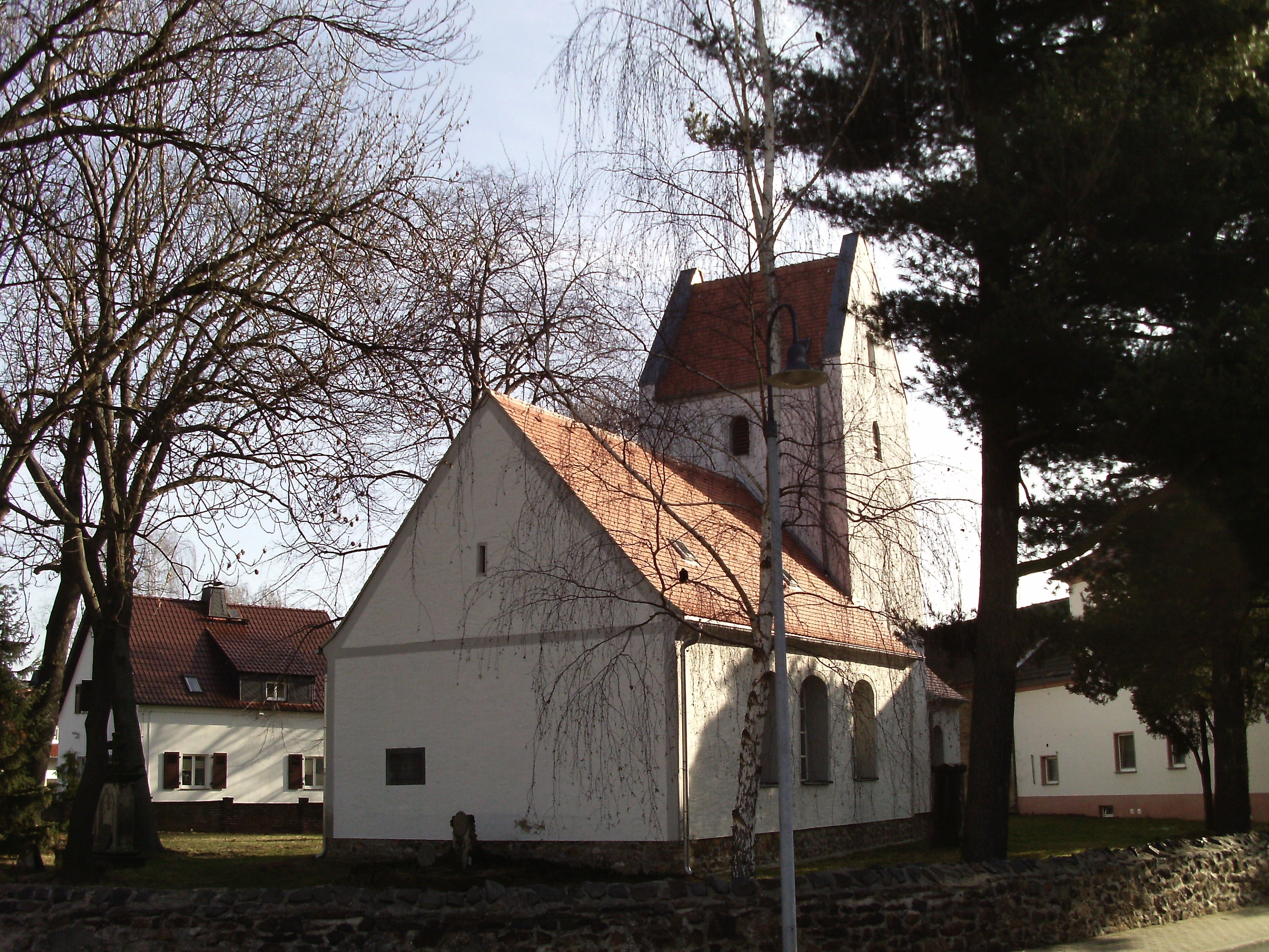 Church in Bennewitz (Leipzig district, Saxony)